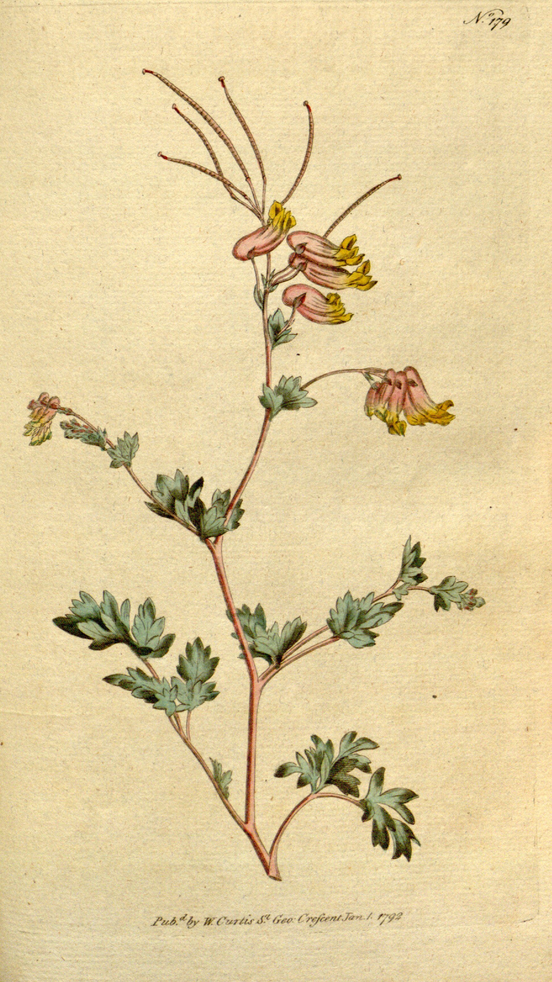 This is a plate from The Botanical Magazine, Volume 5.